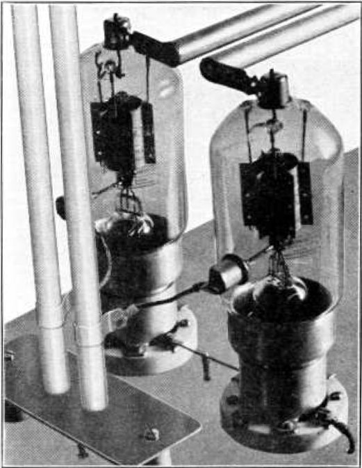 A UHF transmitter from 1938 consisting of two HK-354 triode vacuum tubes in a push-pull tuned-grid tuned-plate oscillator circuit using quarter-wave parallel rod resonant stubs for tuning the grid and plate. The source says the oscillator can produce "high power" on the 2.5 meter (120 MHz) and 5 meter (60 MHz) bands. The plate rods (right) are tuned by a movable shorting strap at the end, while the grid rods (left) are shorted at the bottom and tuned by moving the grid connections up or down. The rods are 2.25 ft (69 cm) long for the 2.5 m band, and 4.5 ft for the 5 m band.